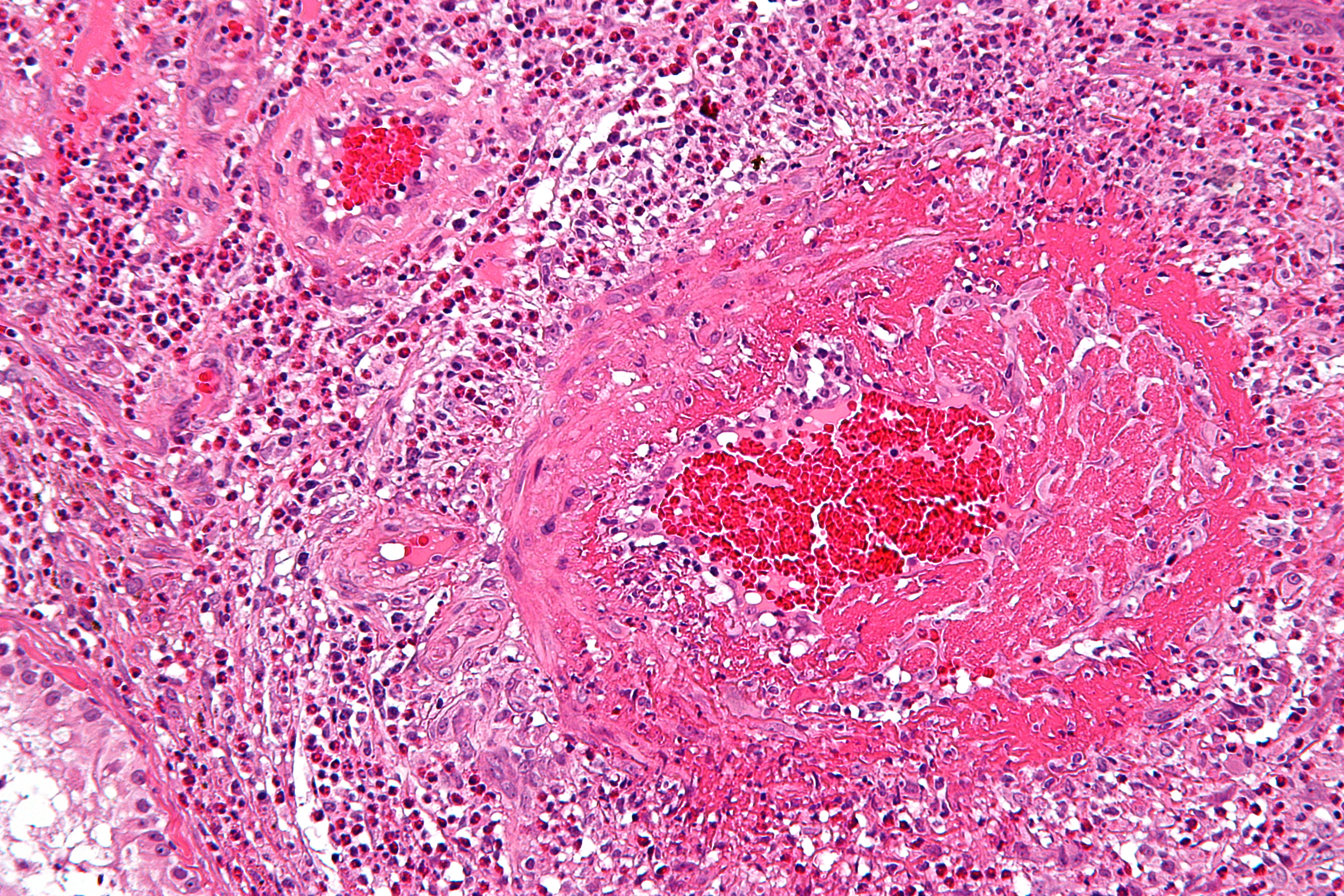 High magnification micrograph of eosinophilic vasculitis consistent with Churg-Strauss syndrome, abbreviated CSS. H&E stain. CSS is characterized by: Granulomas. Asthma. Fever. Eosinophilia. Related images High mag. Very high mag.